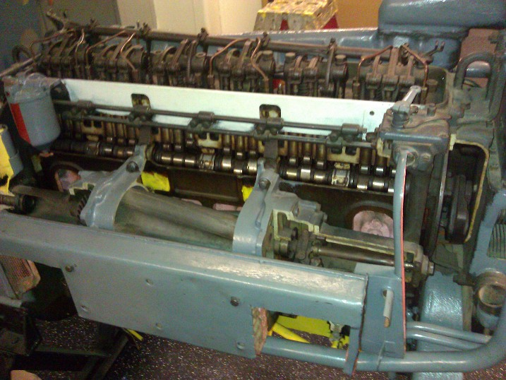 Cutaway showing of the 6-71 Gray Marine Engine